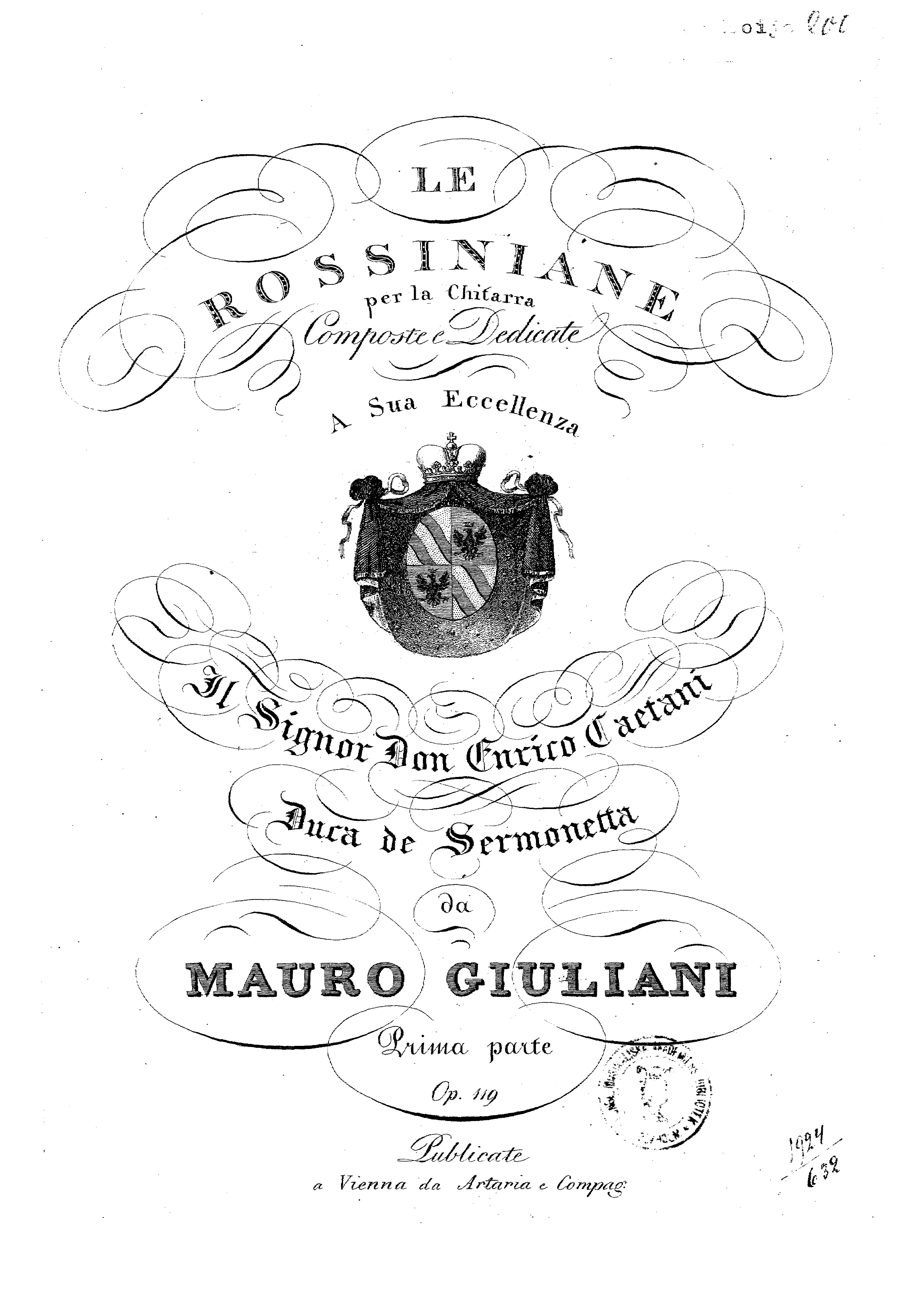 Cover of Mauro Giuliani's Le Rossiniane